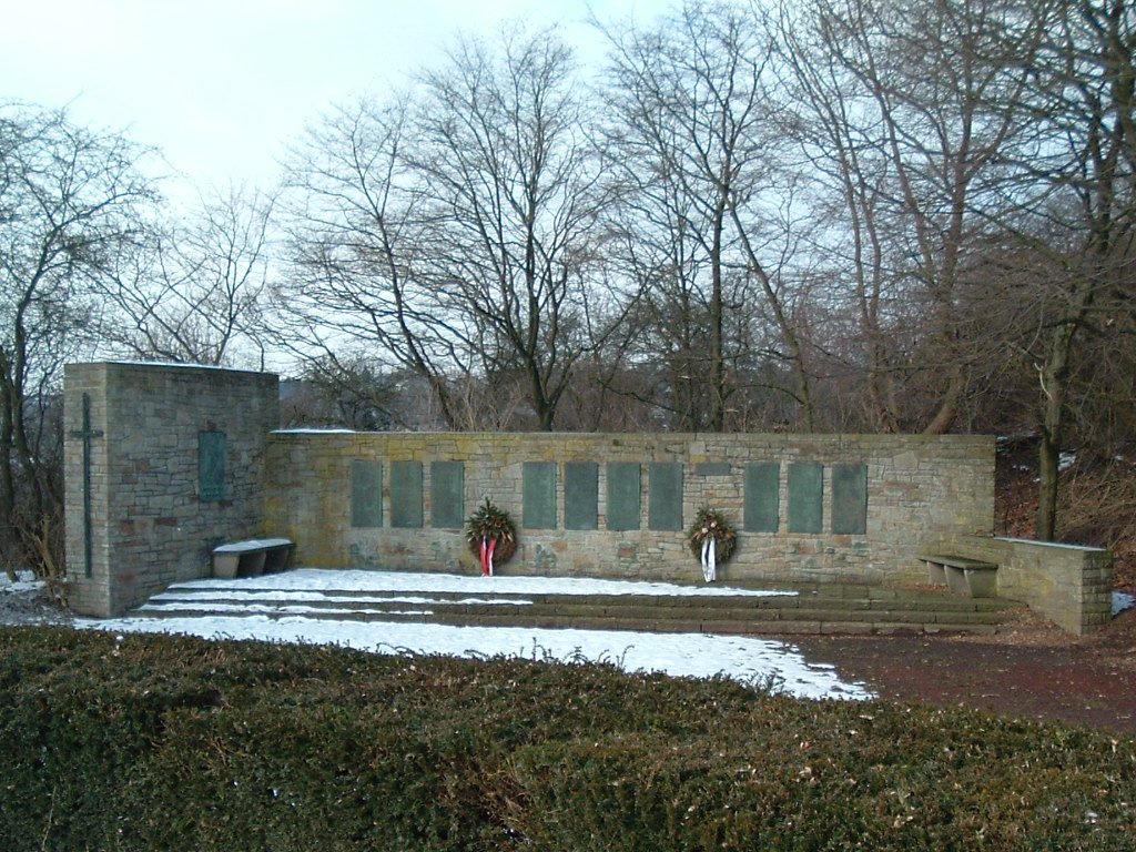 You can see a war memorial to remember all the victims of the second world war in Volmarstein. The memorial stands rise to the castle Volmarstein near by the ruins. On ten boards there are all the names of soldiers killed in action.